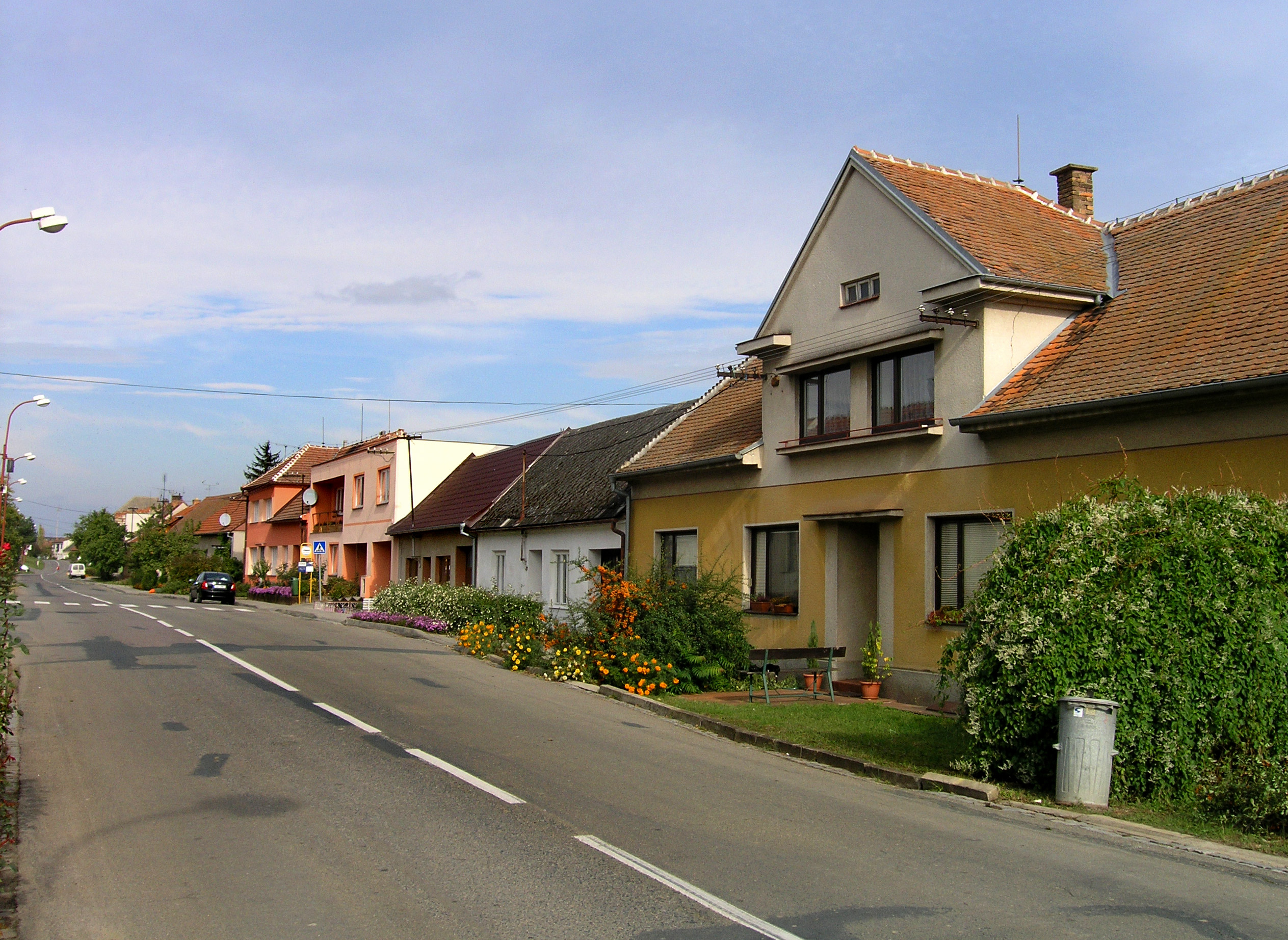 Main street in Brumovice village, Czech Republic